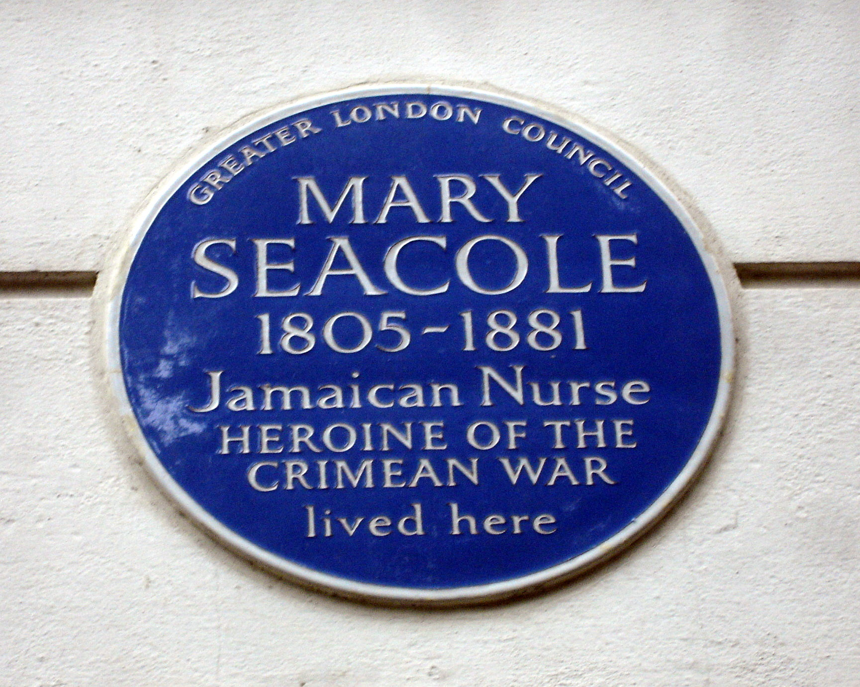 Blue plaque outside of Mary Seacole's home in London